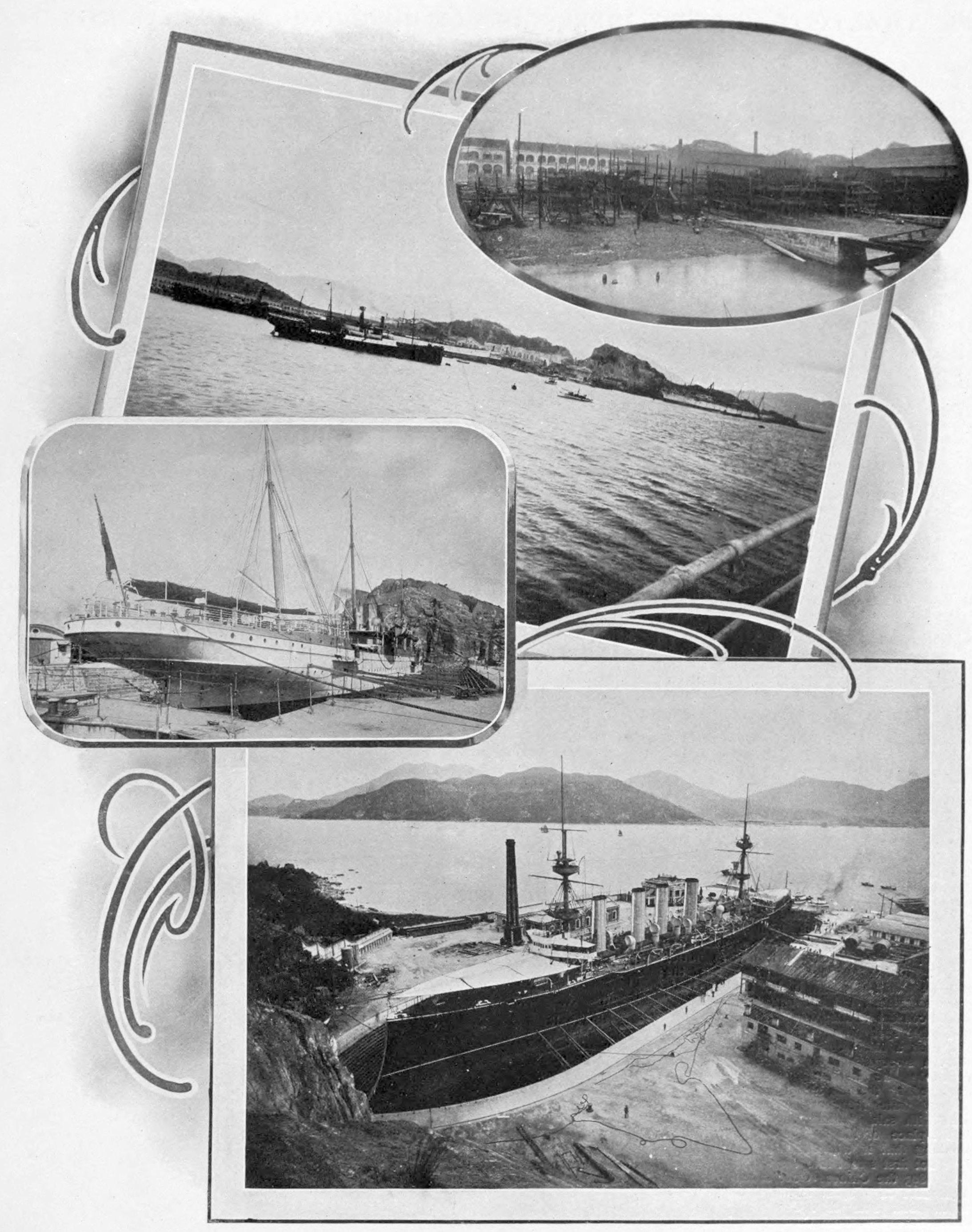 THE HONGKONG AND WHAMPOA DOCK COMPANY, LTD. 1) View of the Docks at Kowloon. 2) Shipbuilding Yard. 3) "Empress of Japan" in Dock. 4) H.M.S. "Powerful" in Dock No. 1.